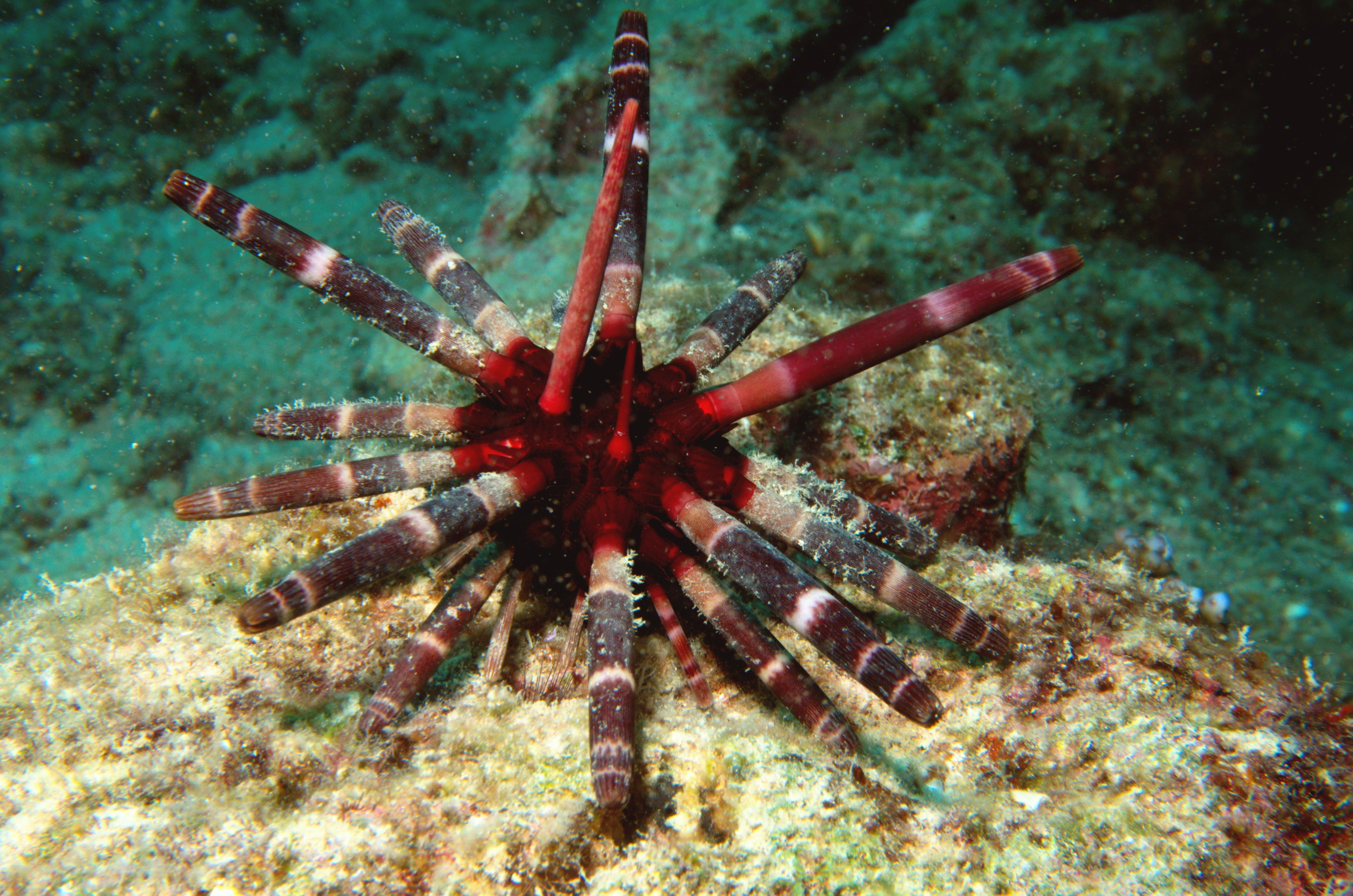 Phyllacanthus imperialis. North Direction Island. 13m.